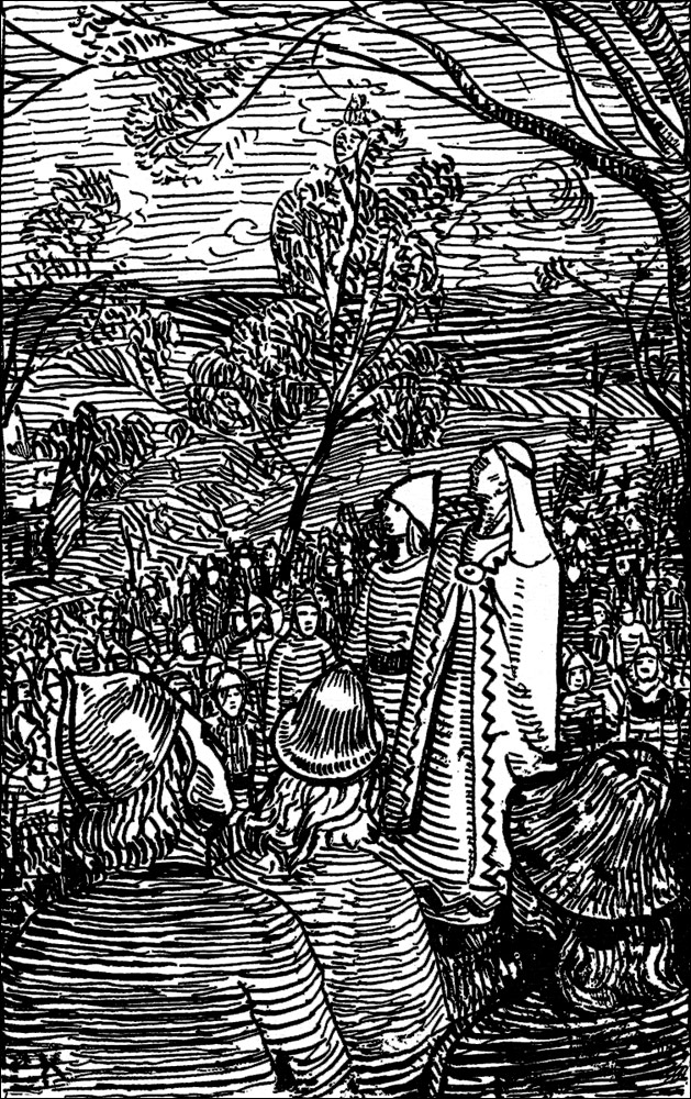 Widow queen Astrid Olufsdatter speaks, fantasy drawing